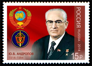 Artistamp "Yuri Andropov".